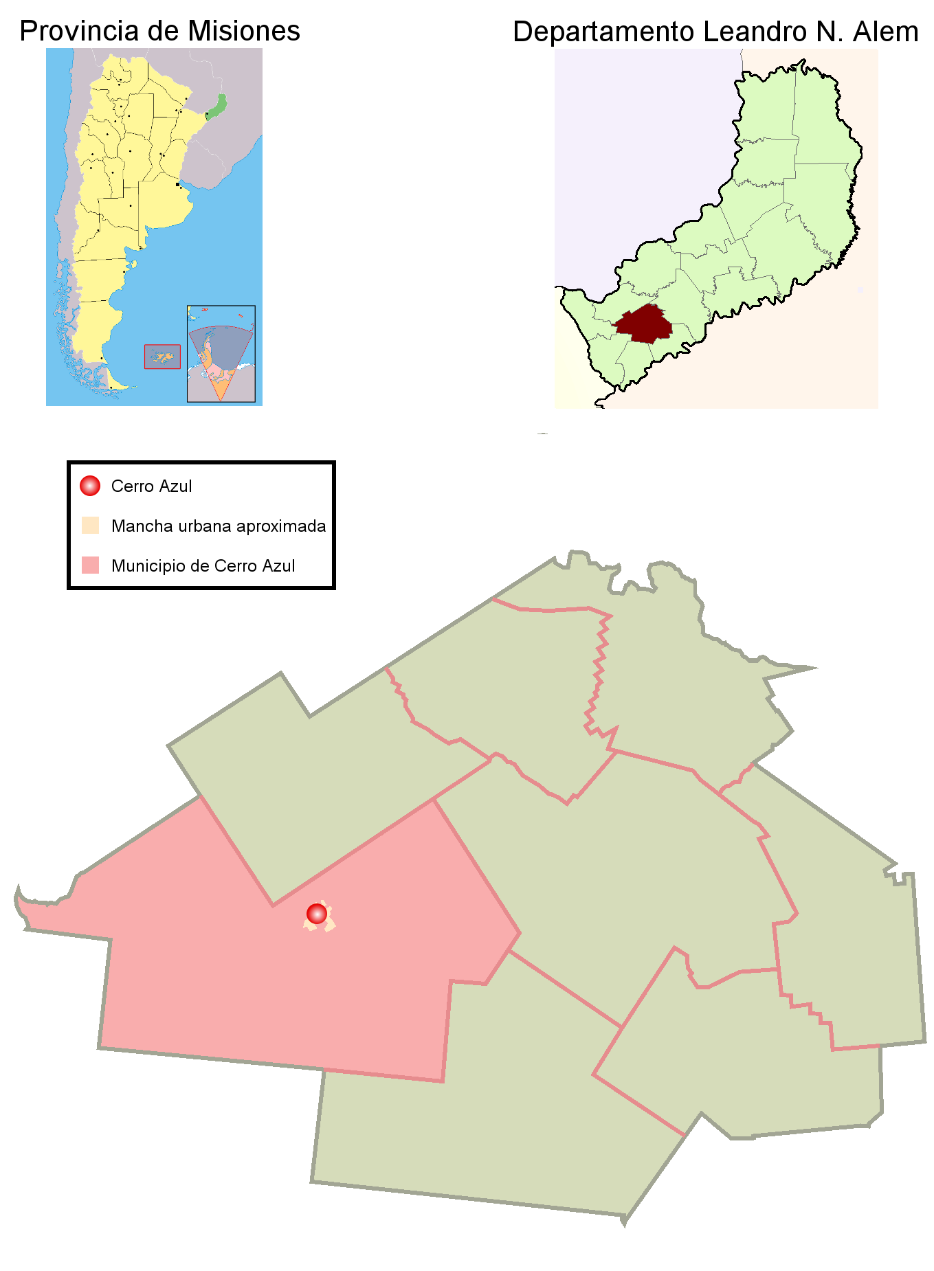 Map showing municipio of Cerro Azul in Leandro N. Alem department, Misiones Province, Argentina. Red point is Cerro Azul town with its urban area.